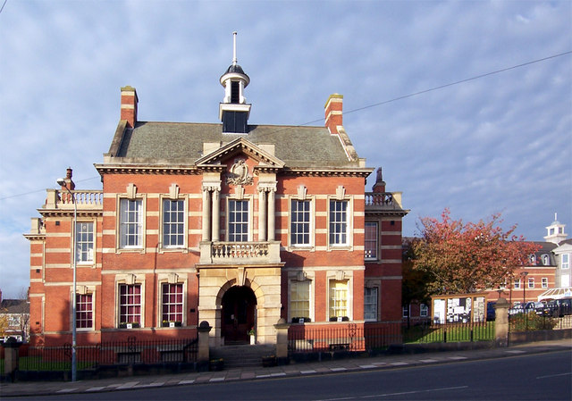 The Old Council House, Cambridge Street Pevsner says "This is of 1904 by H.C.Scaping, brick with stone dressings, a small, crisply detailed Baroque facade with a lantern."